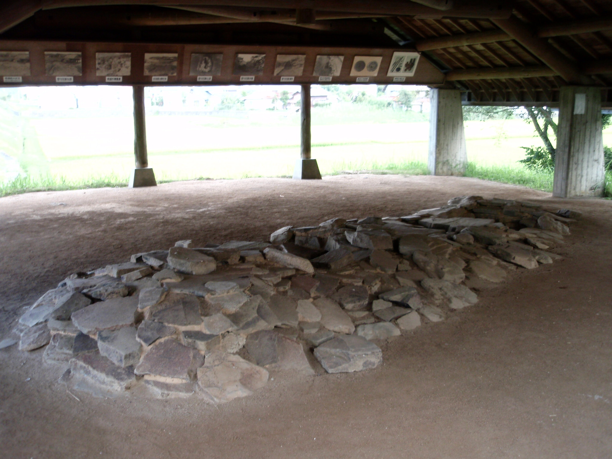 The stone chamber of Kambara shrine kofun that is removed and reconstructed.